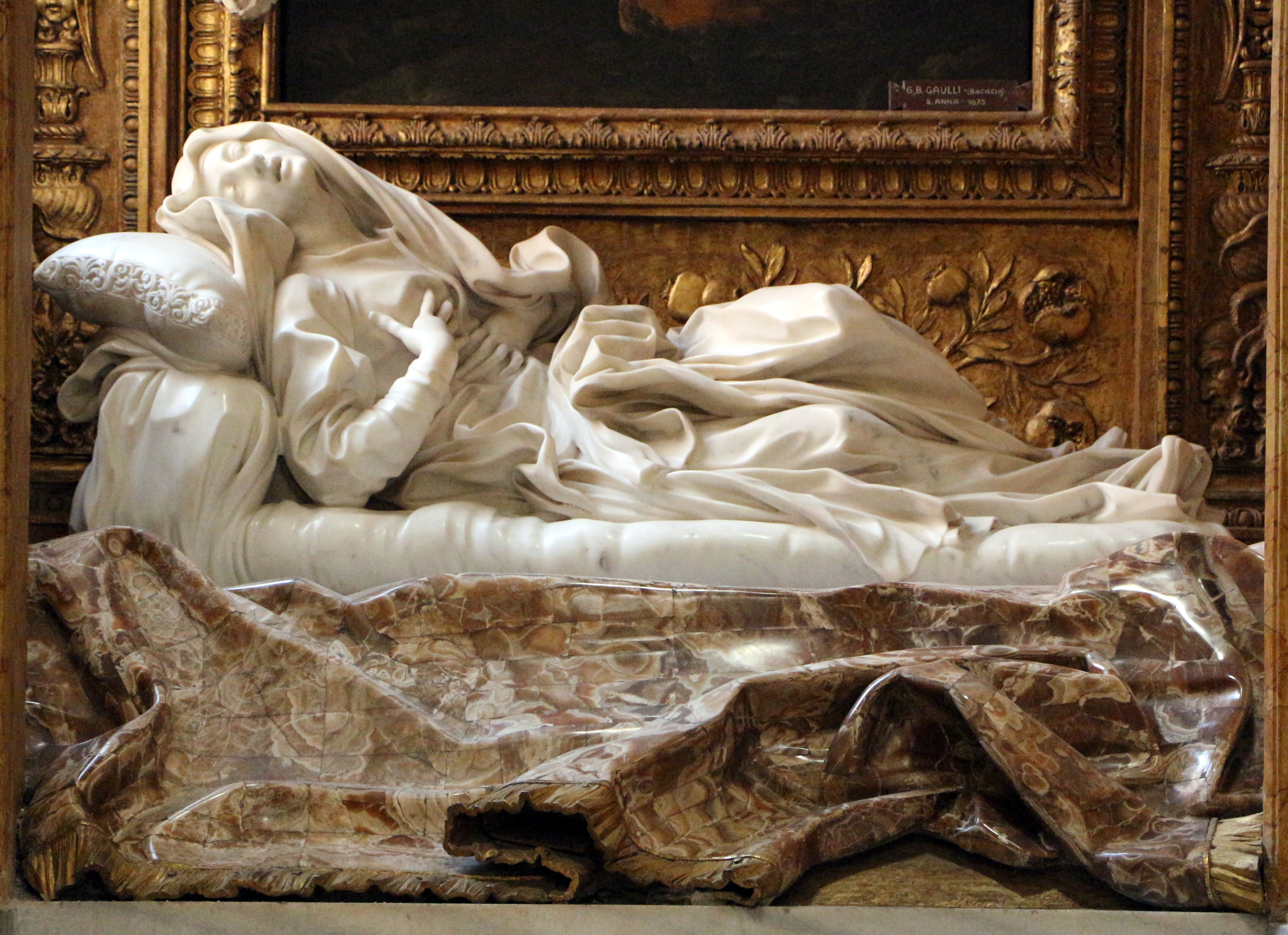 San Francesco a Ripa (Rome) - Interior